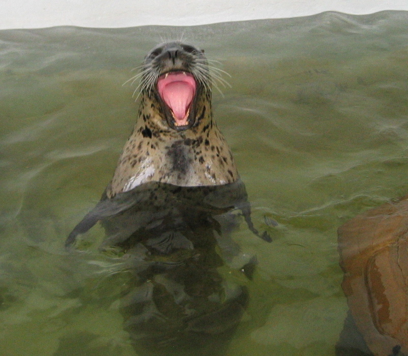 Seal, unidentified species, in a tank of the Seaside Aquarium, Seaside, Oregon.